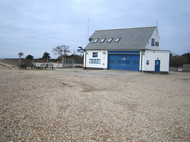 Hayling Island Lifeboat Station. On the south eastern corner of the island near Sandy Point, the lifeboat station's website, complete with a comprehensive log of call-outs, is here